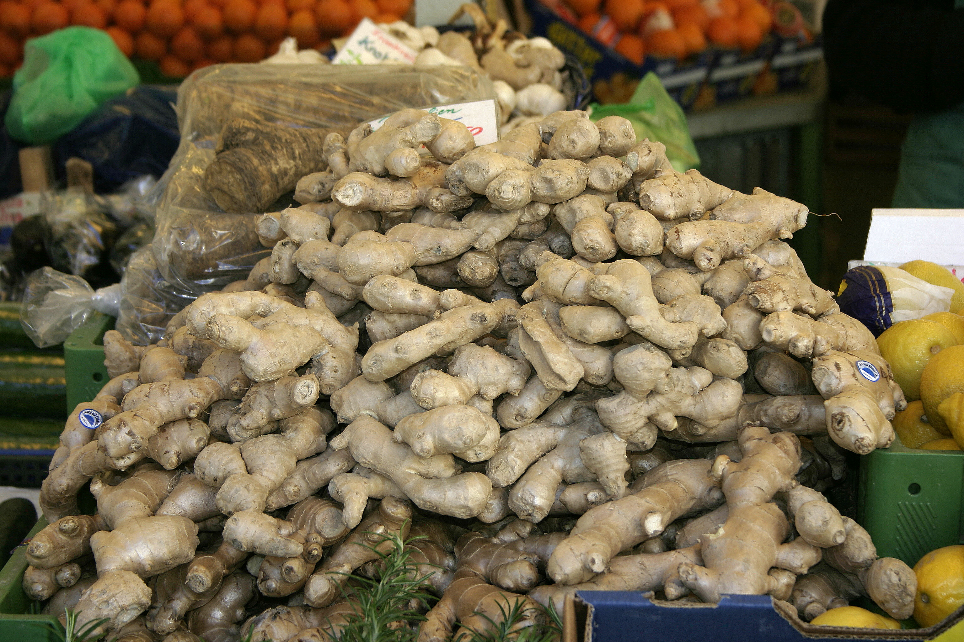 Ginger